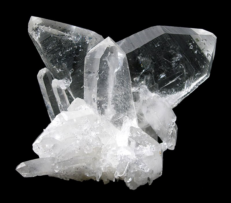 Quartz Locality: Pelona Mine, La Libertad Department, Peru (Locality at ) Size: miniature, 4.0 x 3.7 x 2.0 cm Quartz (Japan twin) A pristine miniature, very bright and sparkling, featuring a wonderfully balanced central twin enhanced by the starkly contrasting prismatic quartz right behind it! Or in front...as either side is a good view depending on personal taste.